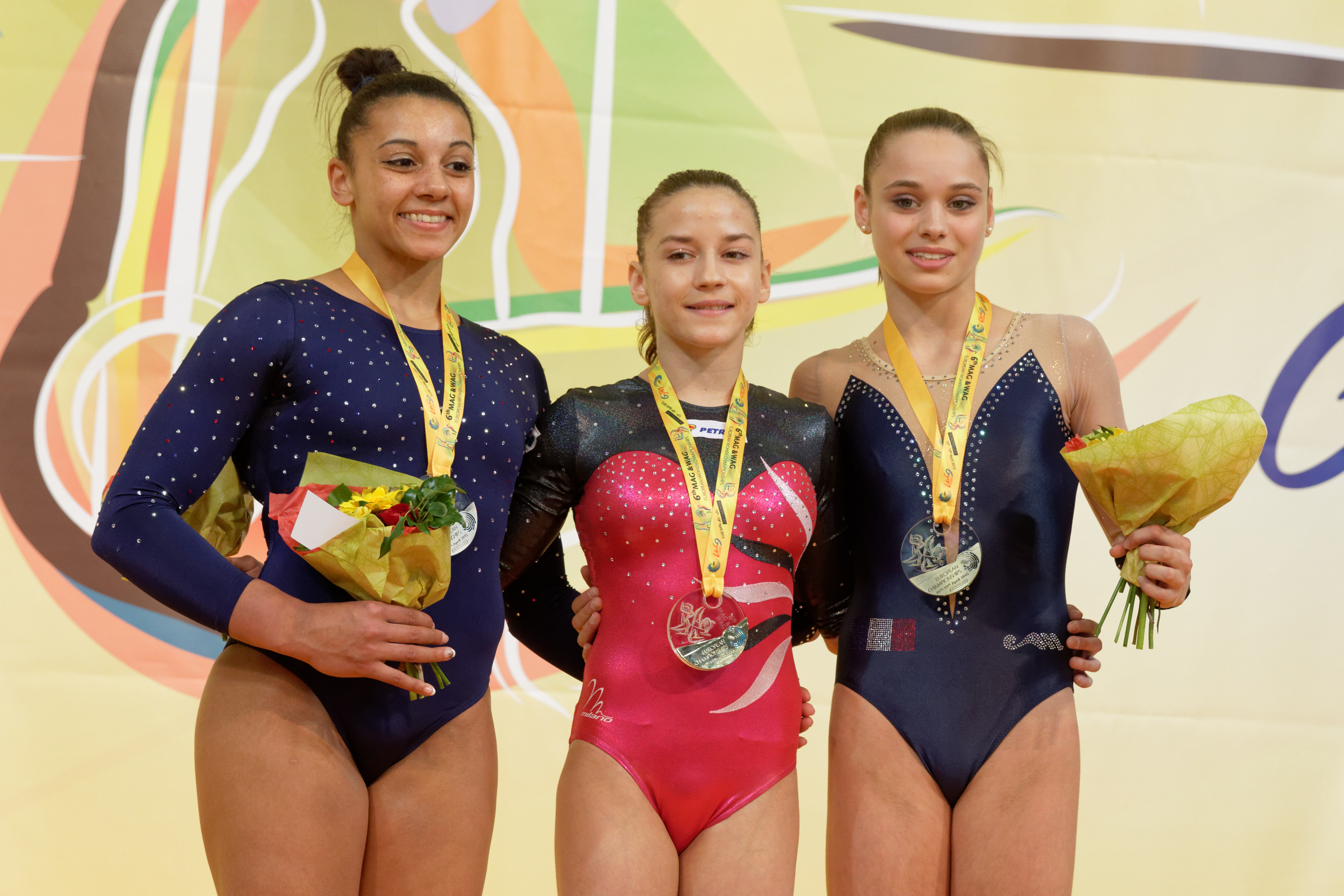 2015 European Artistic Gymnastics Championships. Bamance beam.